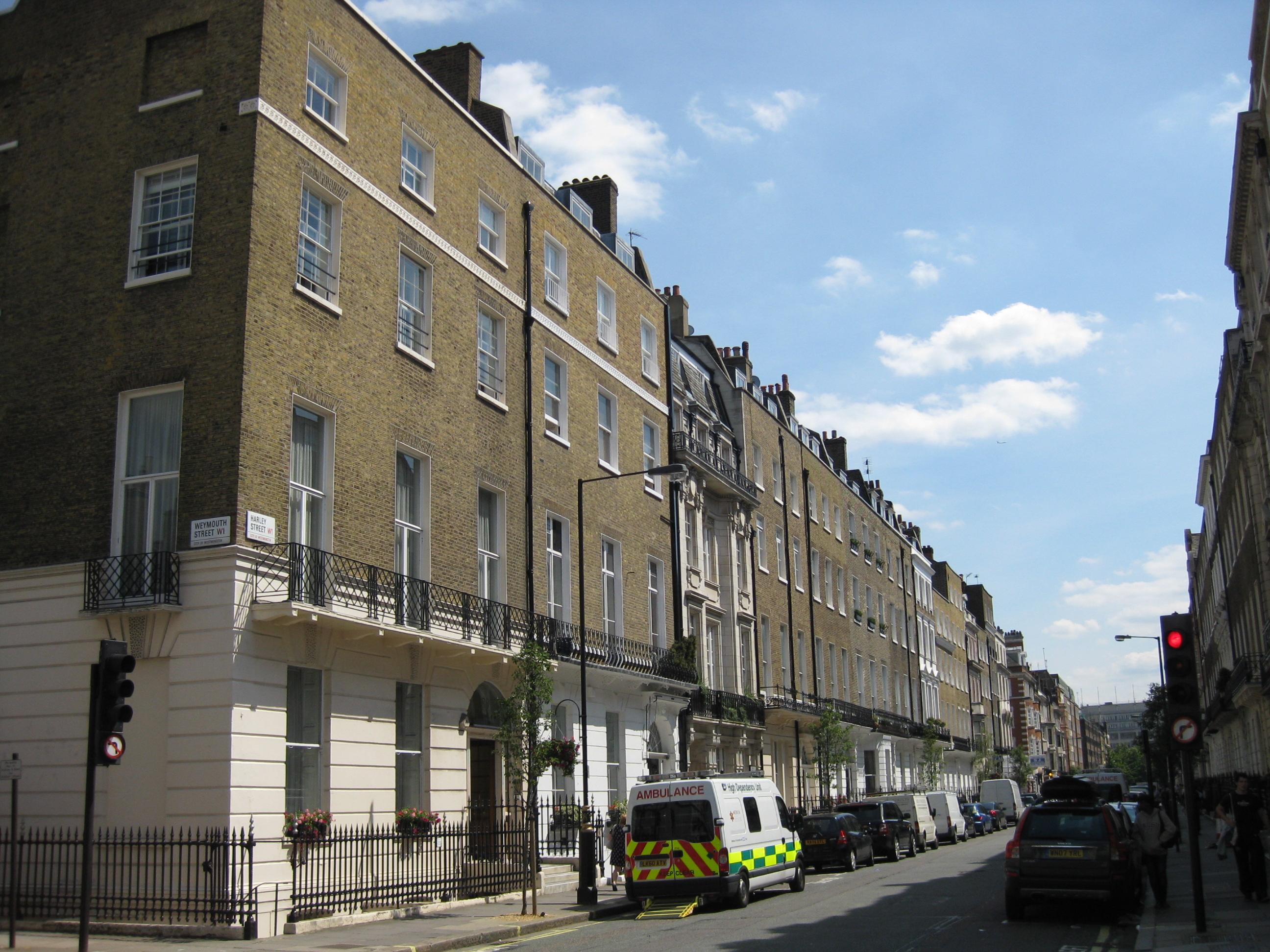 Harley Street, Westminster, London W1. Junction with Weymouth Street. The second house on the left side of the street, 84 Harley Street, features as a dentist's practice in the Agatha Christie's Poirot episode "One, Two, Buckle My Shoe" (1992).